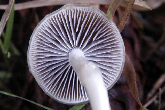 Stropharia semiglobata from Commanster, Belgium. The determination of the species shown in this picture has been verified.